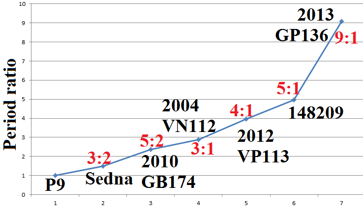 Planet nine alternative model